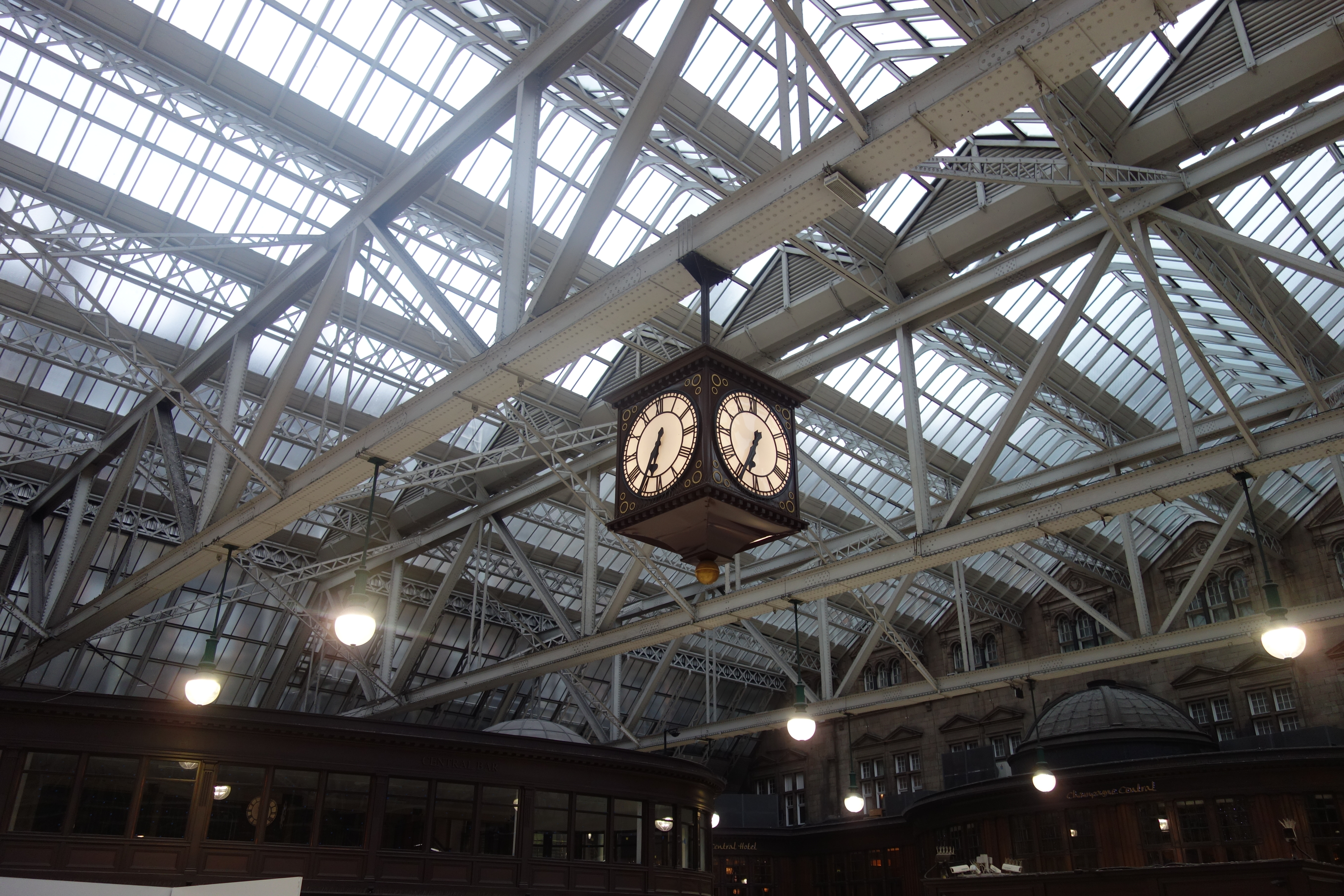 Station clock of Glasgow Central Railway Station (2017)